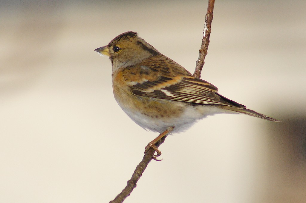 A female Brambling in the town of Wieruszów, Poland.